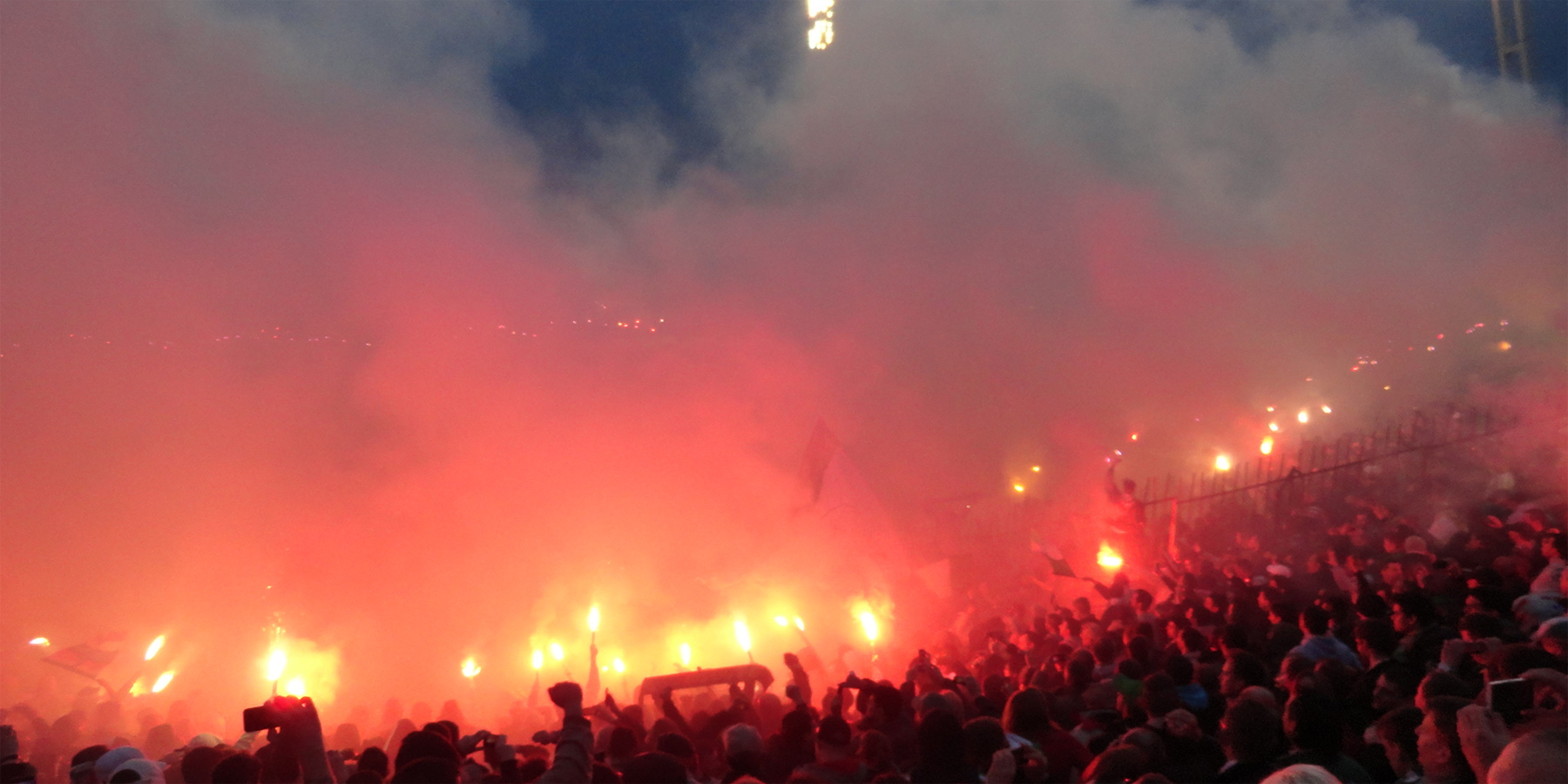 Ferencvárosi TC - Újpest FC derby. Pyrotechnical show by the Ferencváros fans.